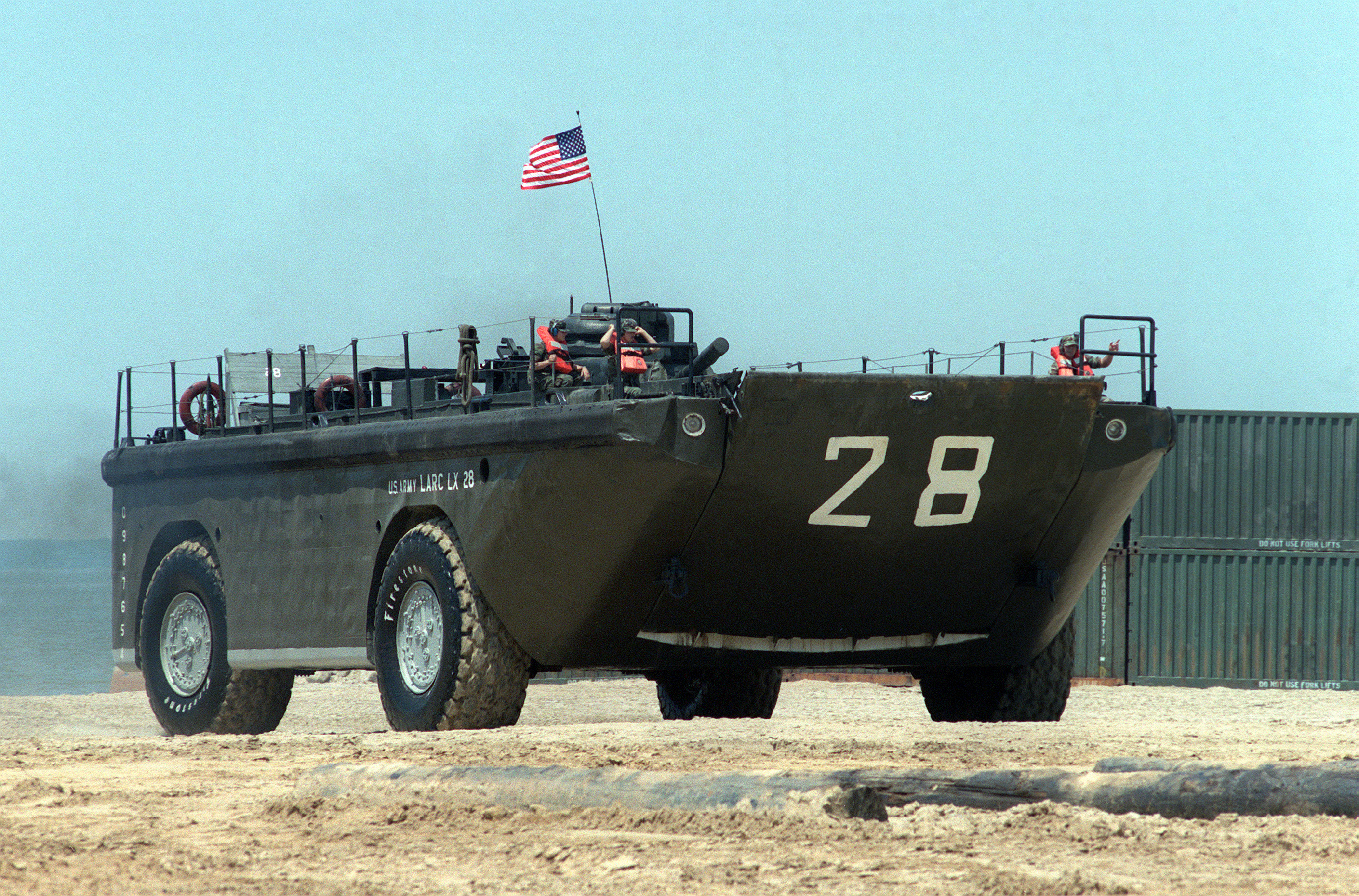 An Army LARC 60 amphibious landing craft on display during the Army logistics exposition PROLOG '85.